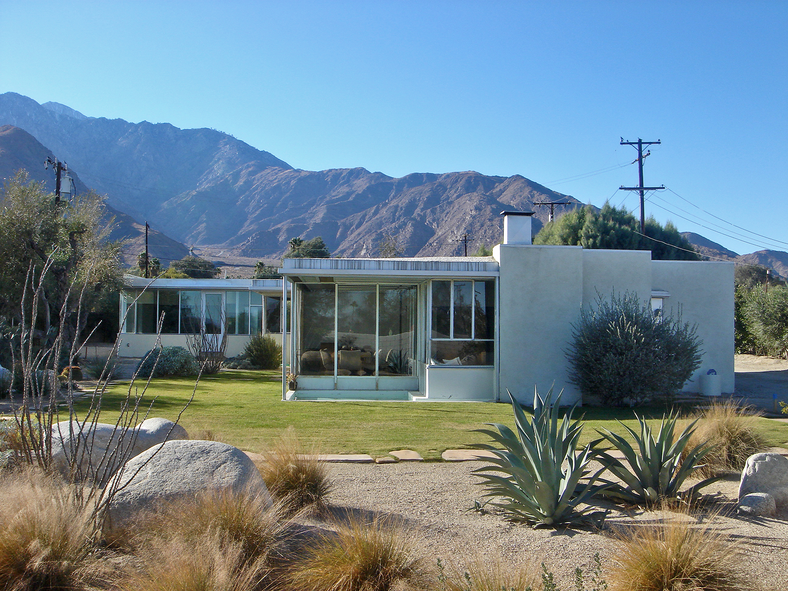 Dec. 29: A Richard Neutra design from 1937. This style has come to be known as Desert modernism.